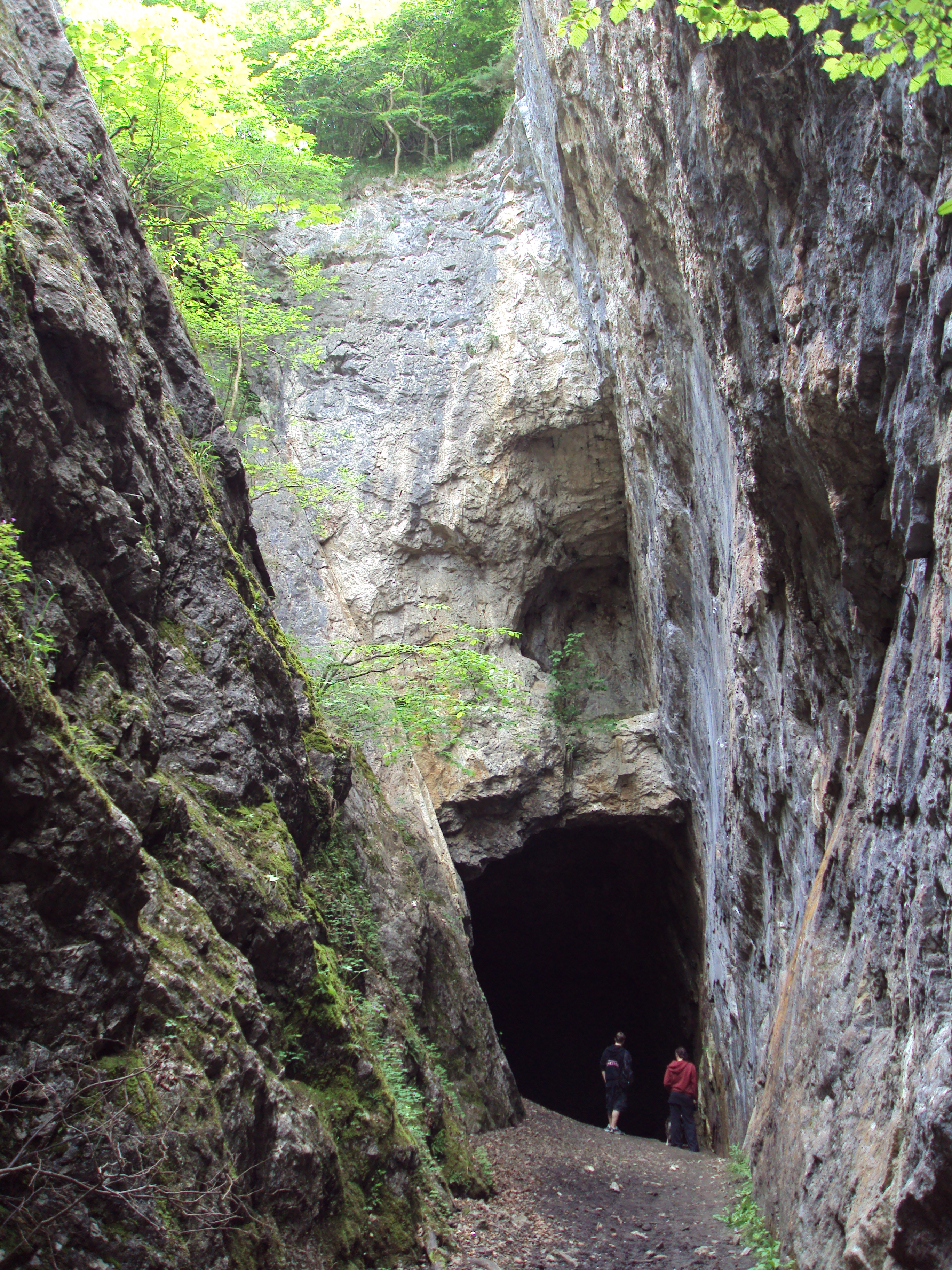 Devil's Gorge lies between Loggerheads, Denbighshire and Cilcain, Flintshire, North Wales. The Gorge is in Flintshire.